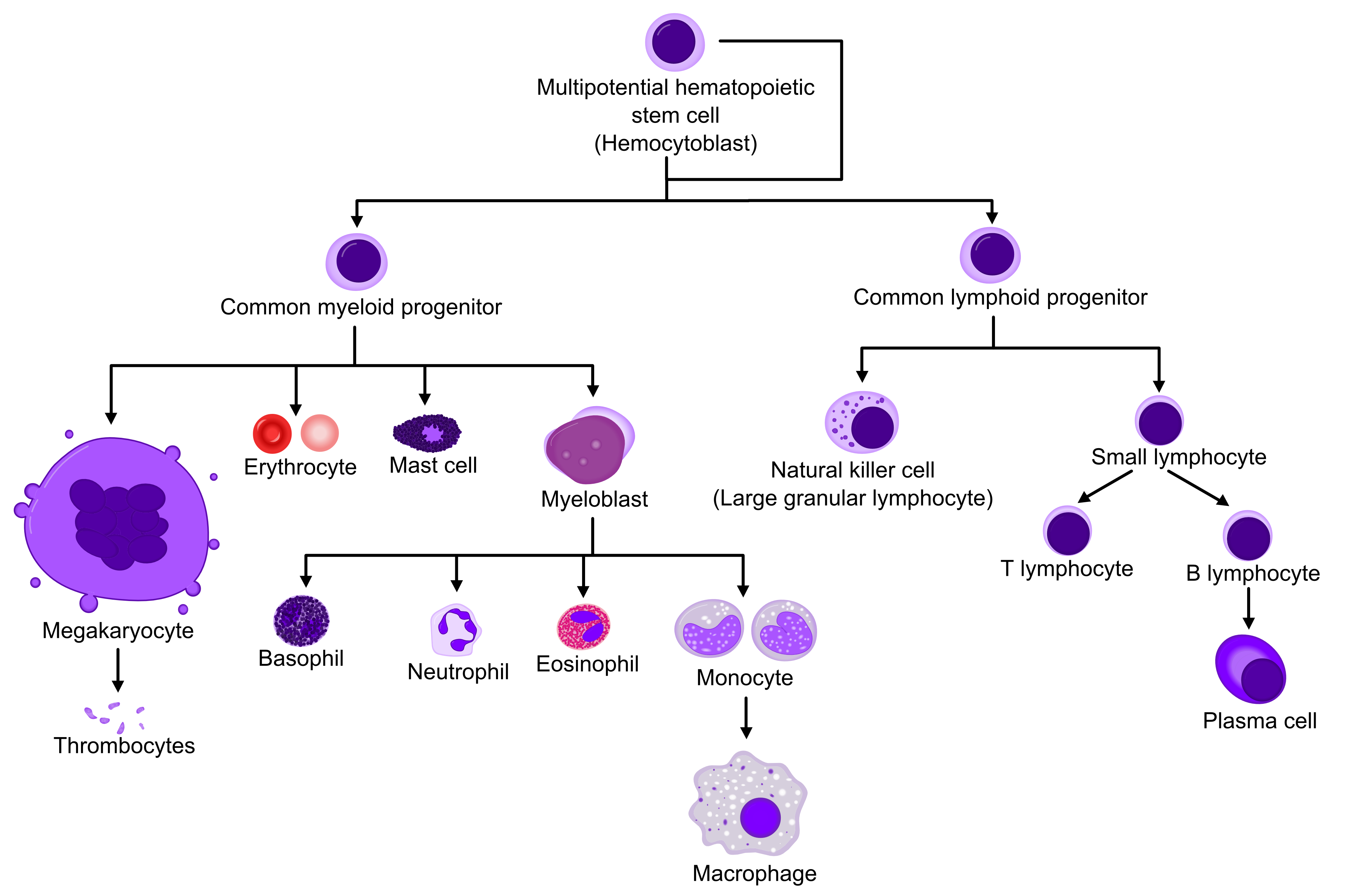 Simplified hematopoiesis